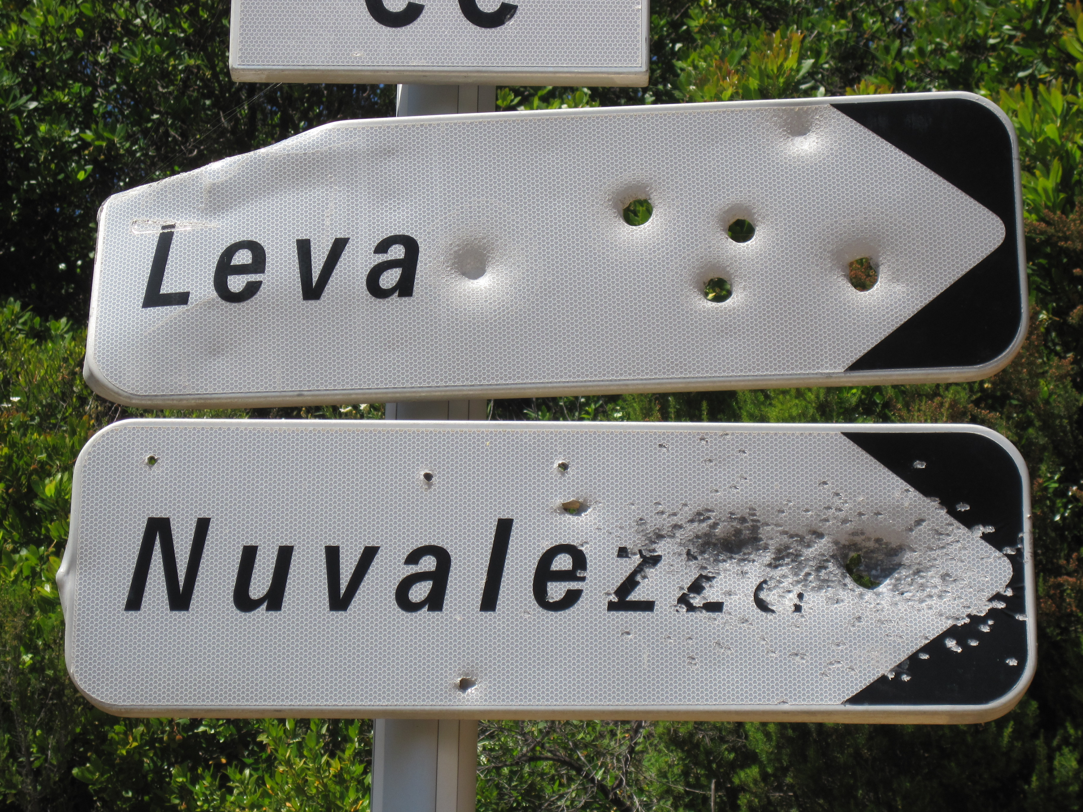 Roadsigns with bulletholes, Corsica, France